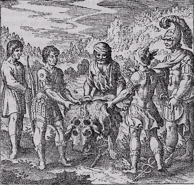 Emblem XLIX (titled "Infans Philosophicus tres agnoscit patres, ut Orion") from the Michael Maier 's Atalanta fugiens, a Latin emblem book printed in Germany. The emblem represents an allegory of the conception of Orion as the "child of philosophy". The fathers are (left to right) Apollo, Vulcan and Mercury conceiving in a ox hide. The artist stands to the left, and Mars to the right. (see excerpted commentary from Stanislas Klossowski de Rola’s The Golden Game: Alchemical Engravings of the Seventeenth Century)